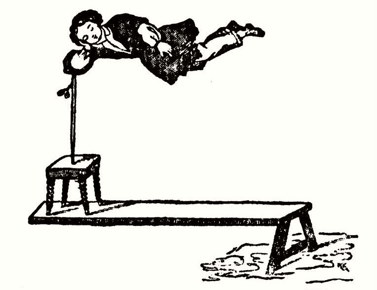 Lithograph or engraving of the ethereal suspension illusion as performed by Robert-Houdin. Illustration from William Manning, Two odd volumes on magic and automata: recollections of Robert-Houdin, automata old and new (The Sette of Odd Volumes, early 1890s) page 25.